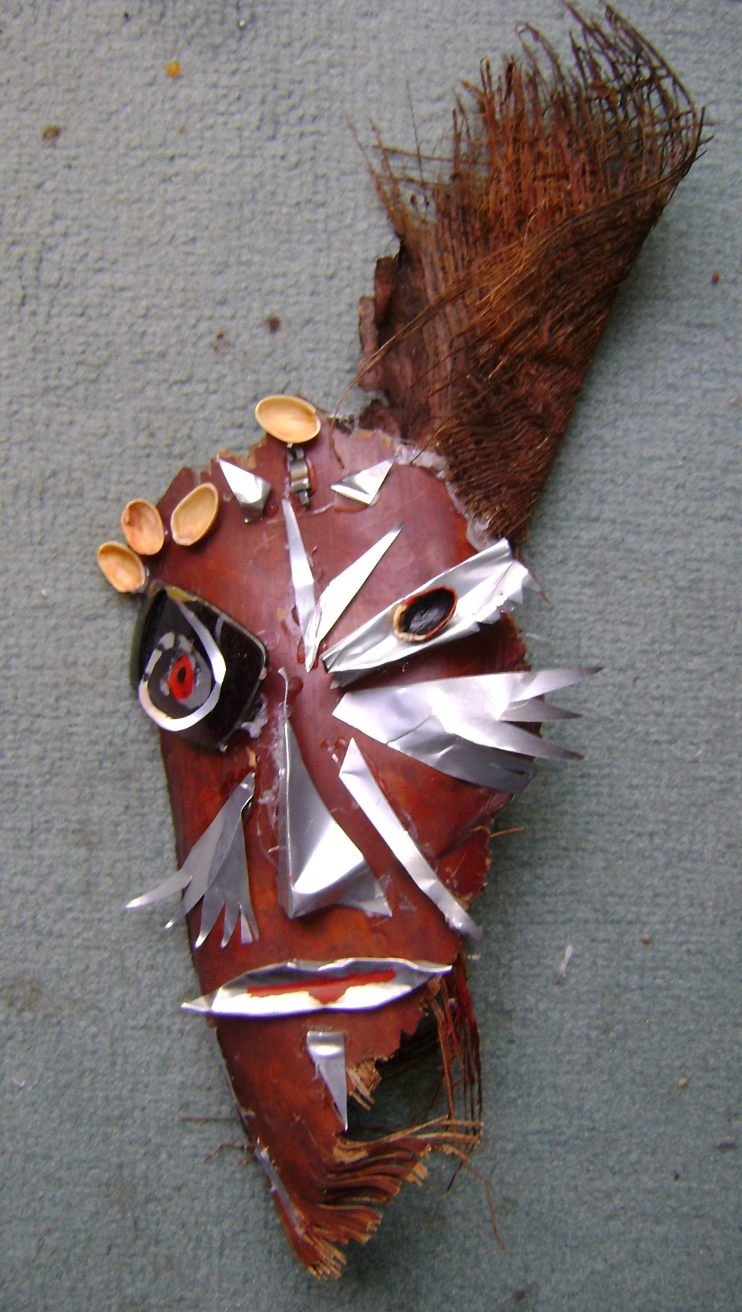 Mask of Charles Nevott (Porto Alegre, june 2011)